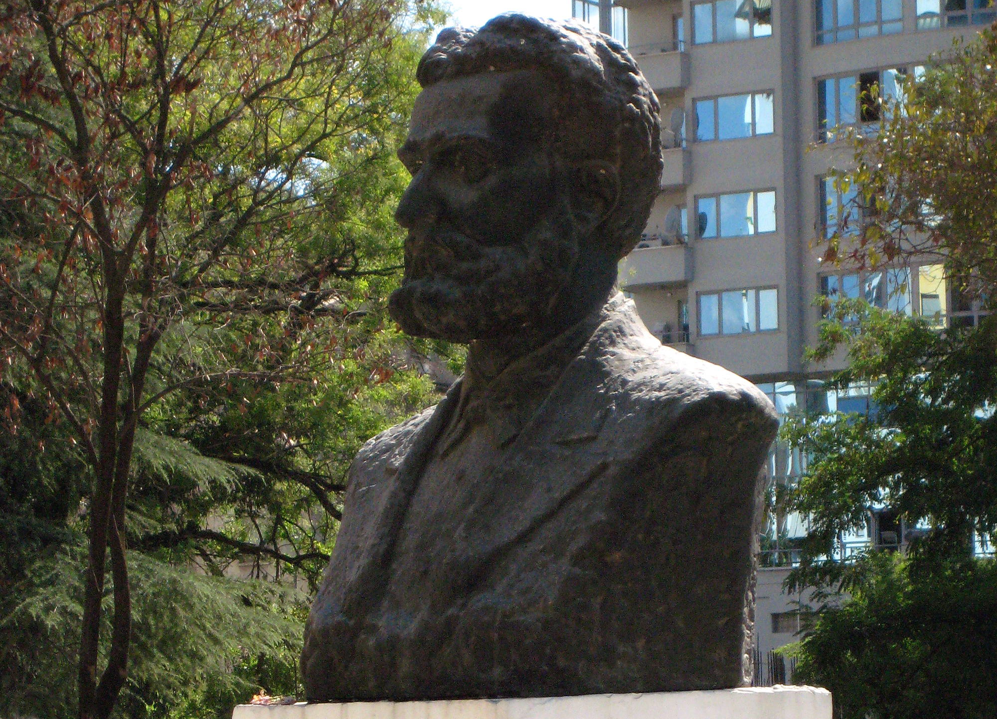 Memorial of Abdyl Frashëri in Tirana